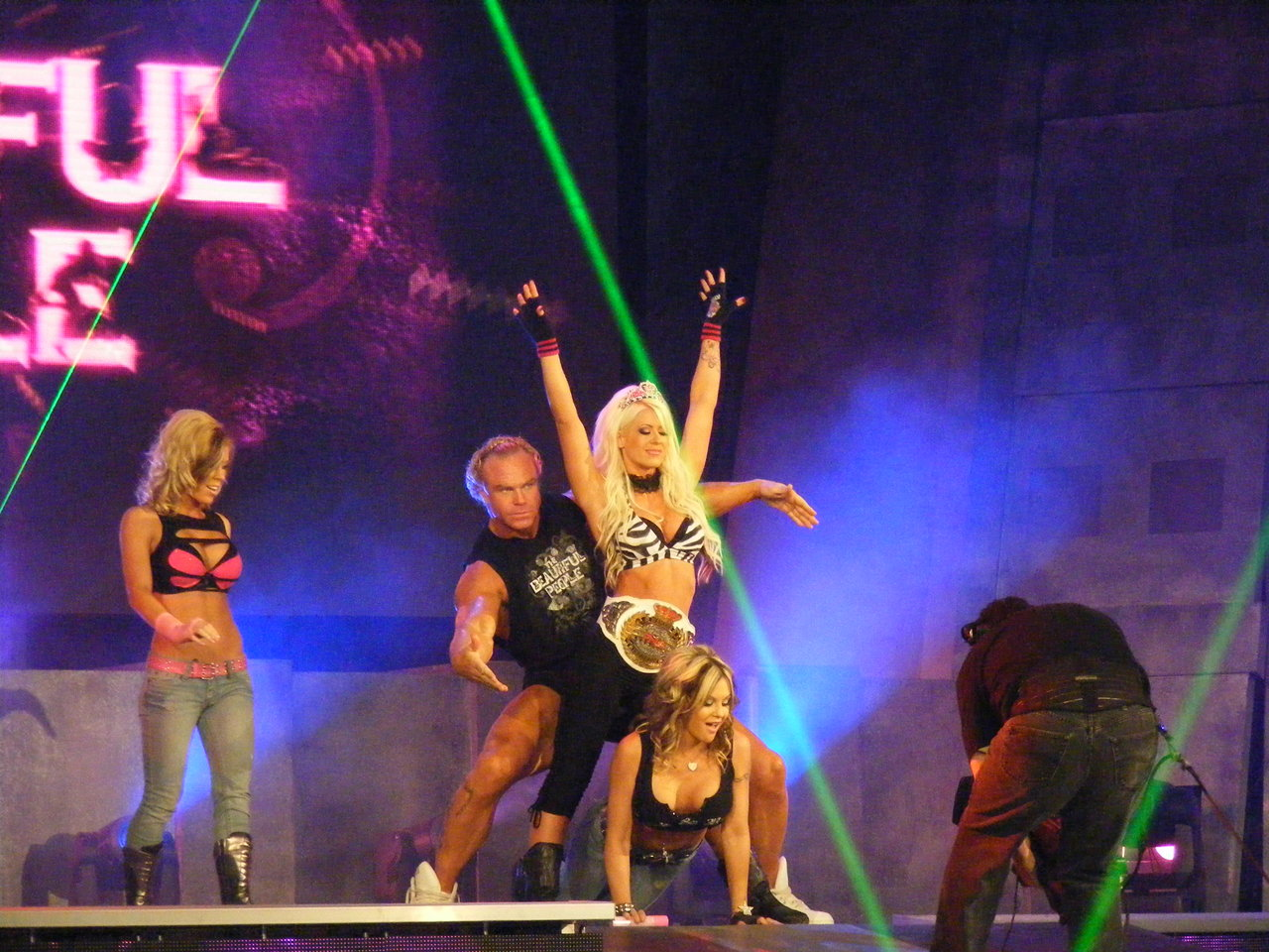 The Beautiful People making their entrance.